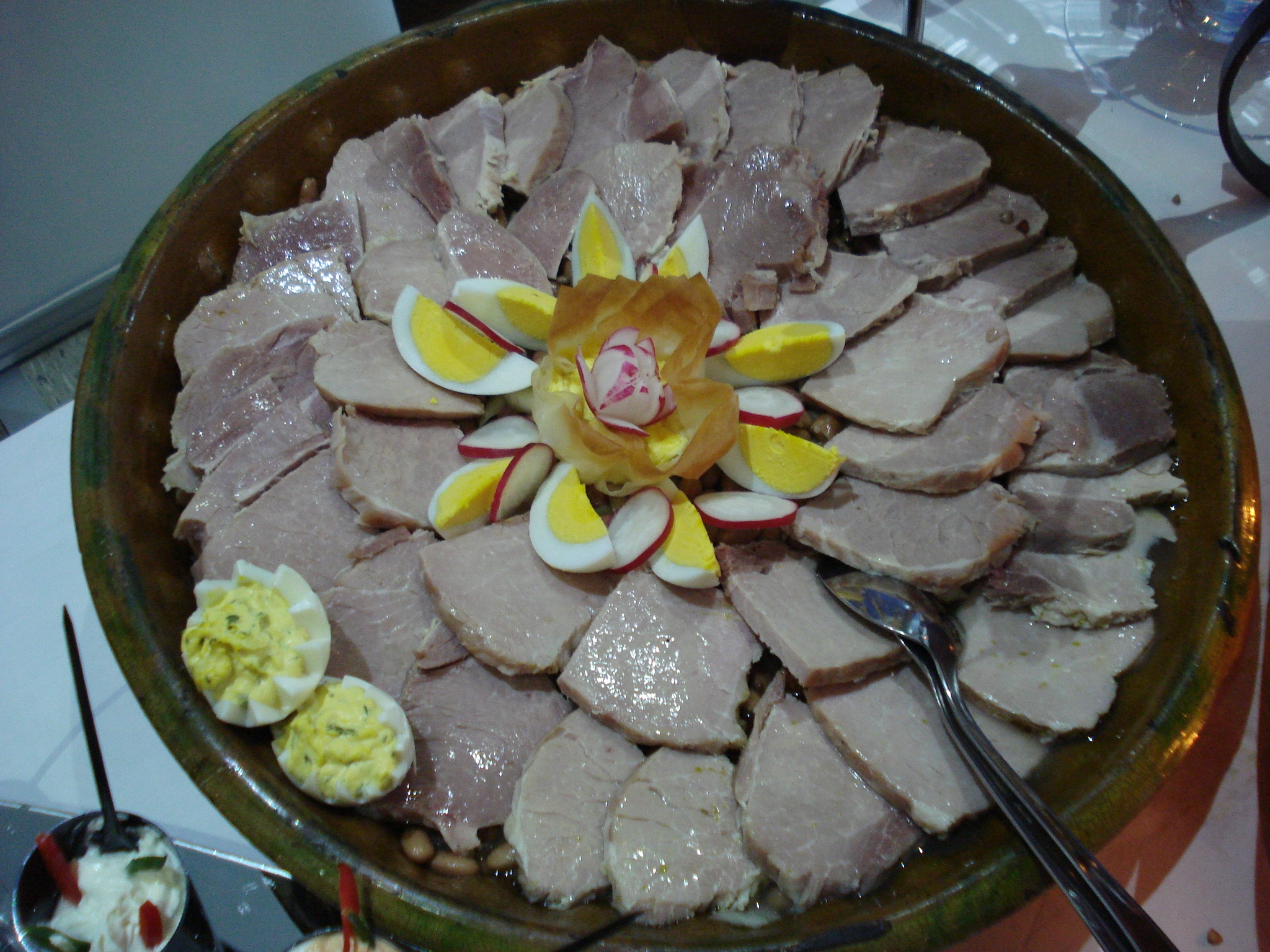 Meat from "tiblitsa" wooden barrel from Medjimurje County, northern Croatia - served